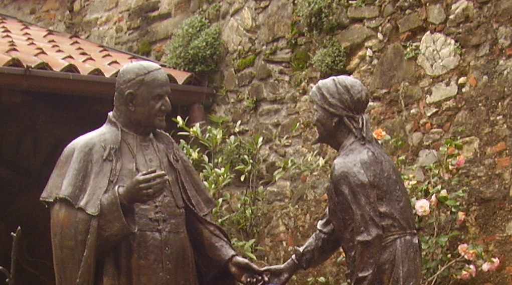 Monument to John XXIII in the courtyard of the house where he was born in Sotto il Monte